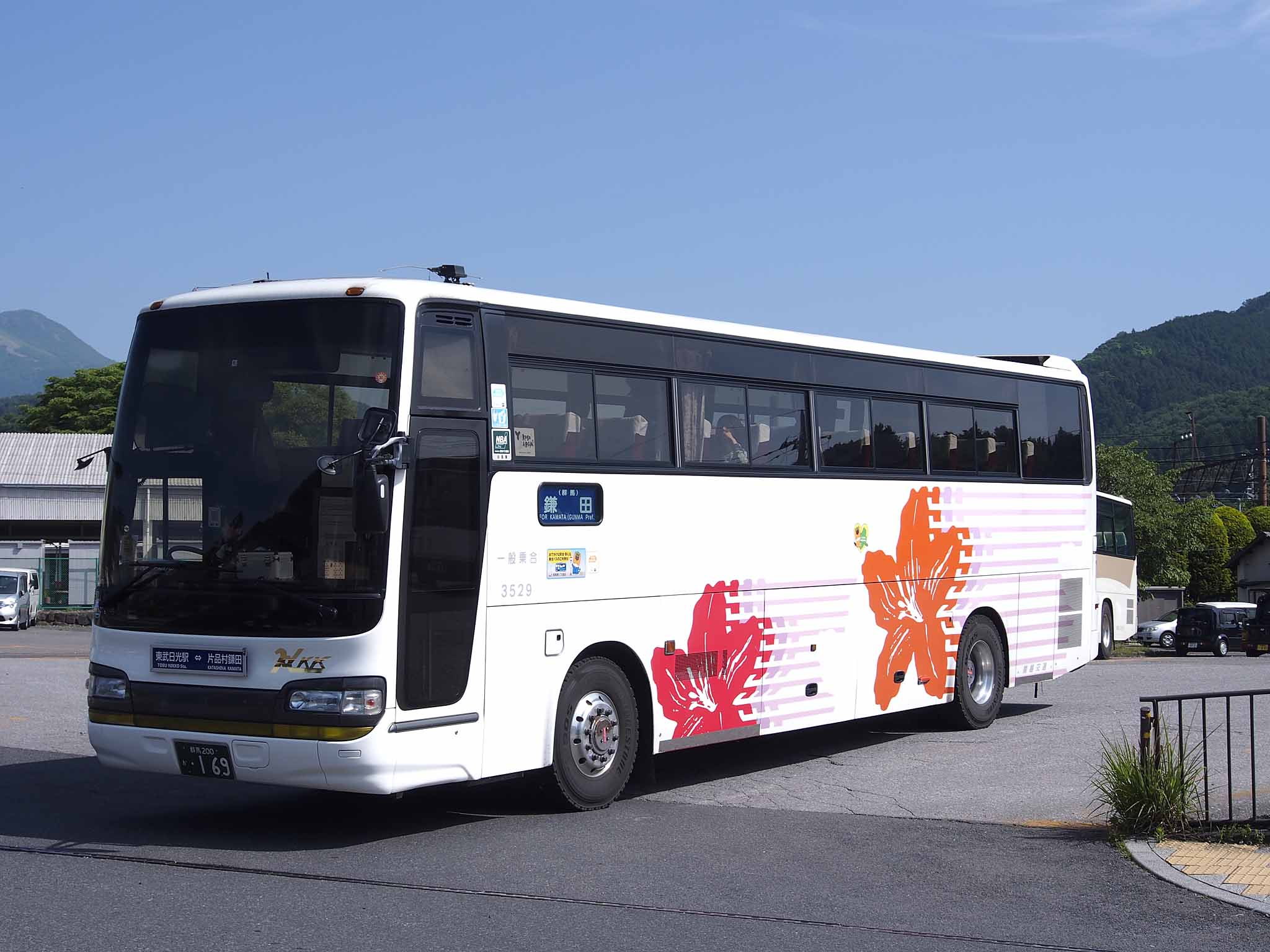 Nikko Oze Katashina Express departs Tobu-Nikko Station, bound for Katashina Village, Gunma. Model: Hino Selega R GD KL-RU1FSEA License plate: GMG200 KA0169